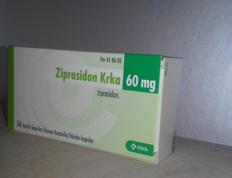 GENERIC GEODON 60 MG.